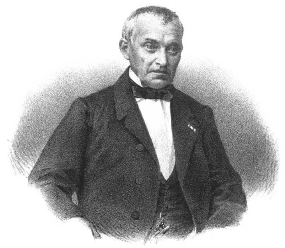 from [1]